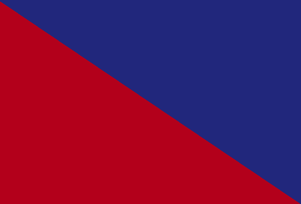 Flag of the city of Campobasso in Italy.